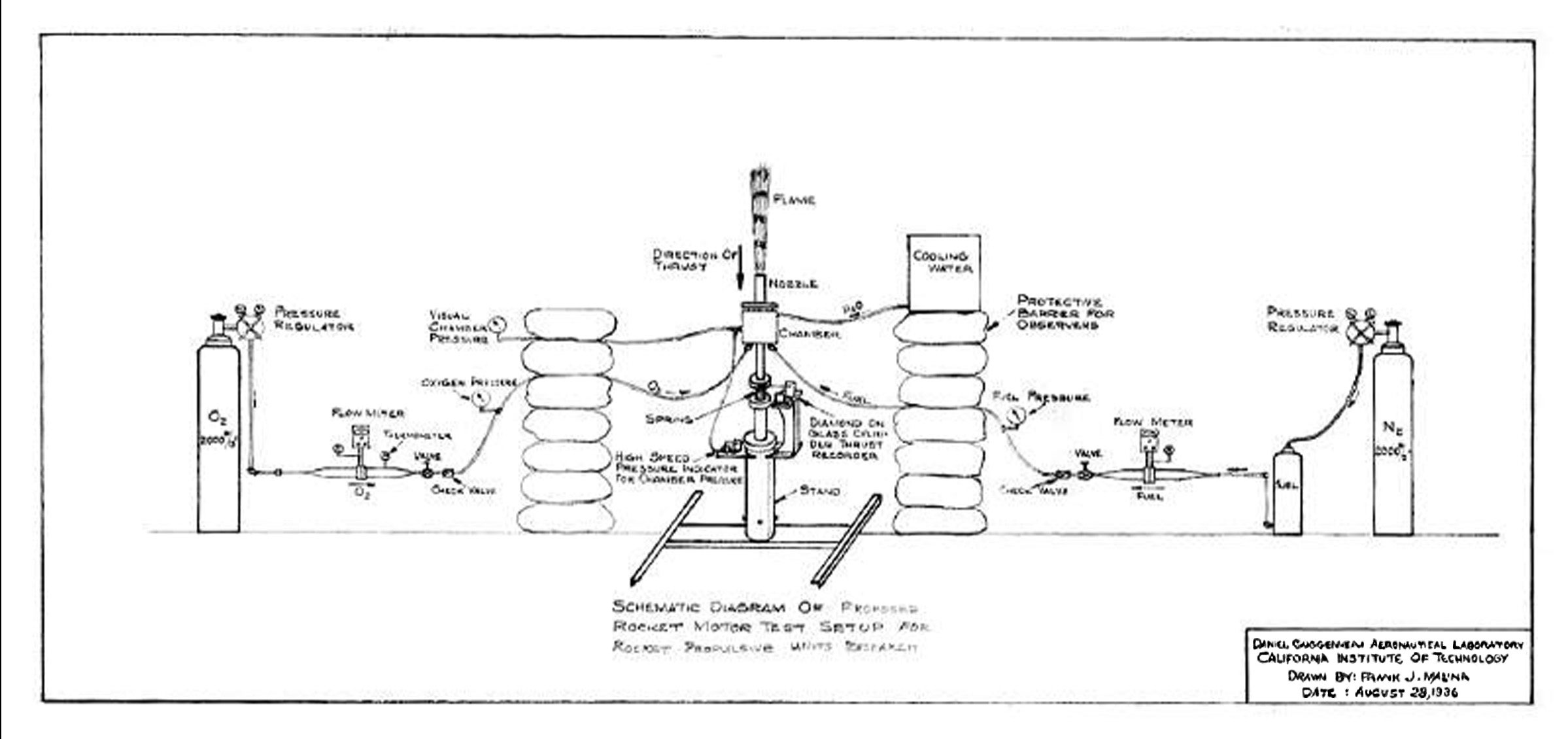 Malina's drawing of how to set up the rocket motor test.